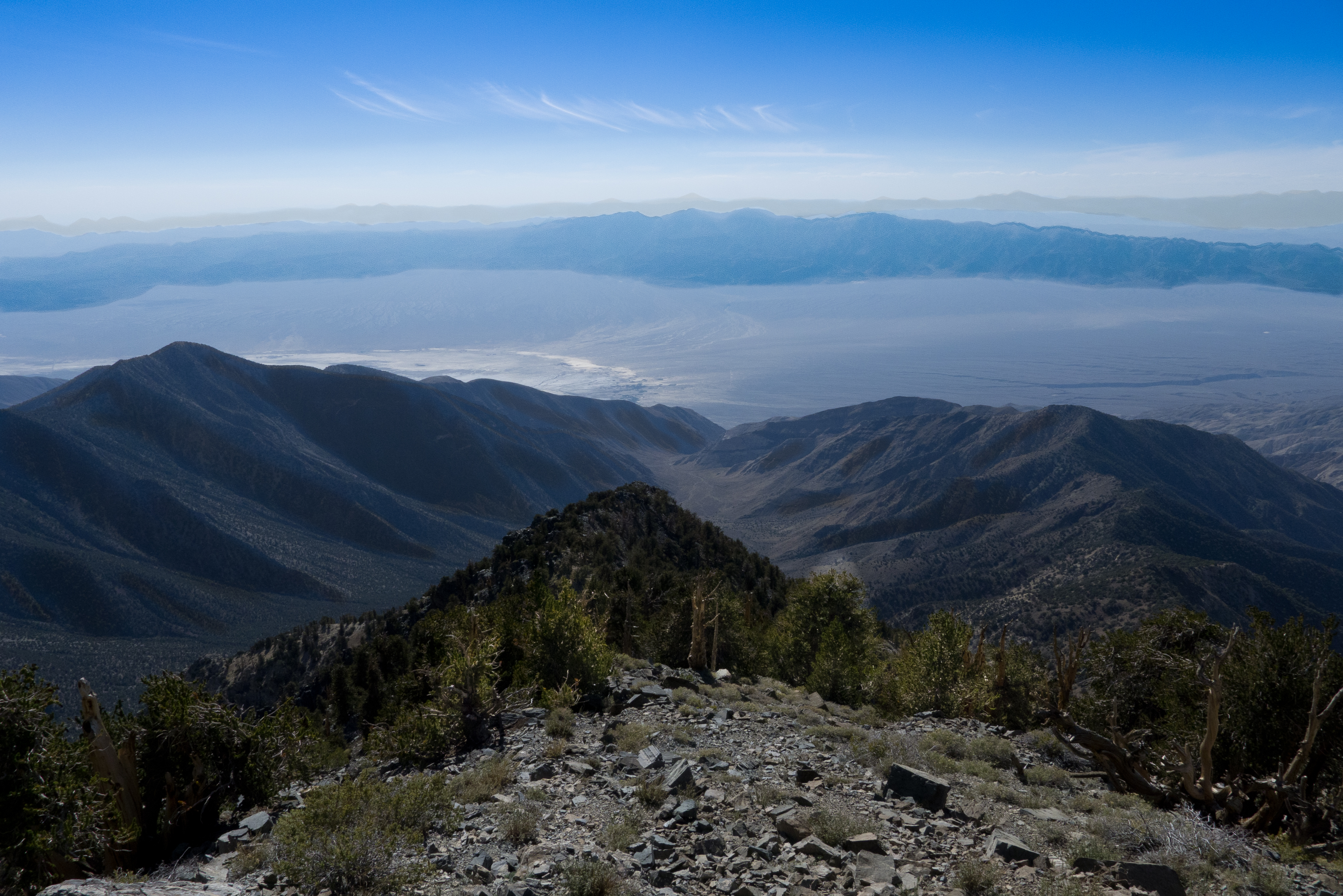 Highest point